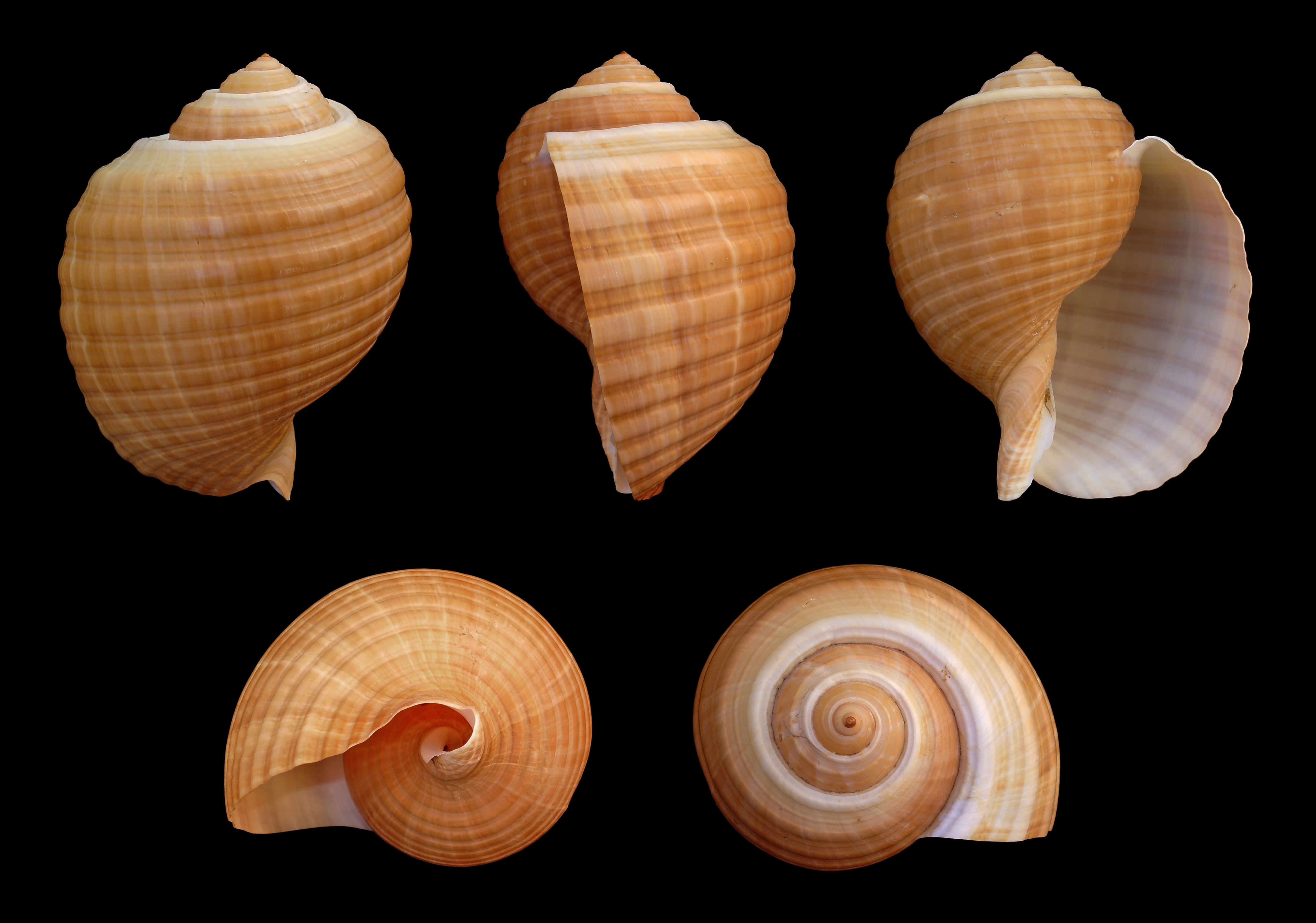 Tonna galea, Tonnidae, Giant Tun, length 14 cm. Distribution: Tropical Indo-Pacific, Western Atlantic, and the Mediterranean. Shell of own collection, therefore not geocoded. From left to right: Dorsal, lateral (right side), ventral, back, and front view.. This picture consists of 5 single photos. The metadata refer to the dorsal view.